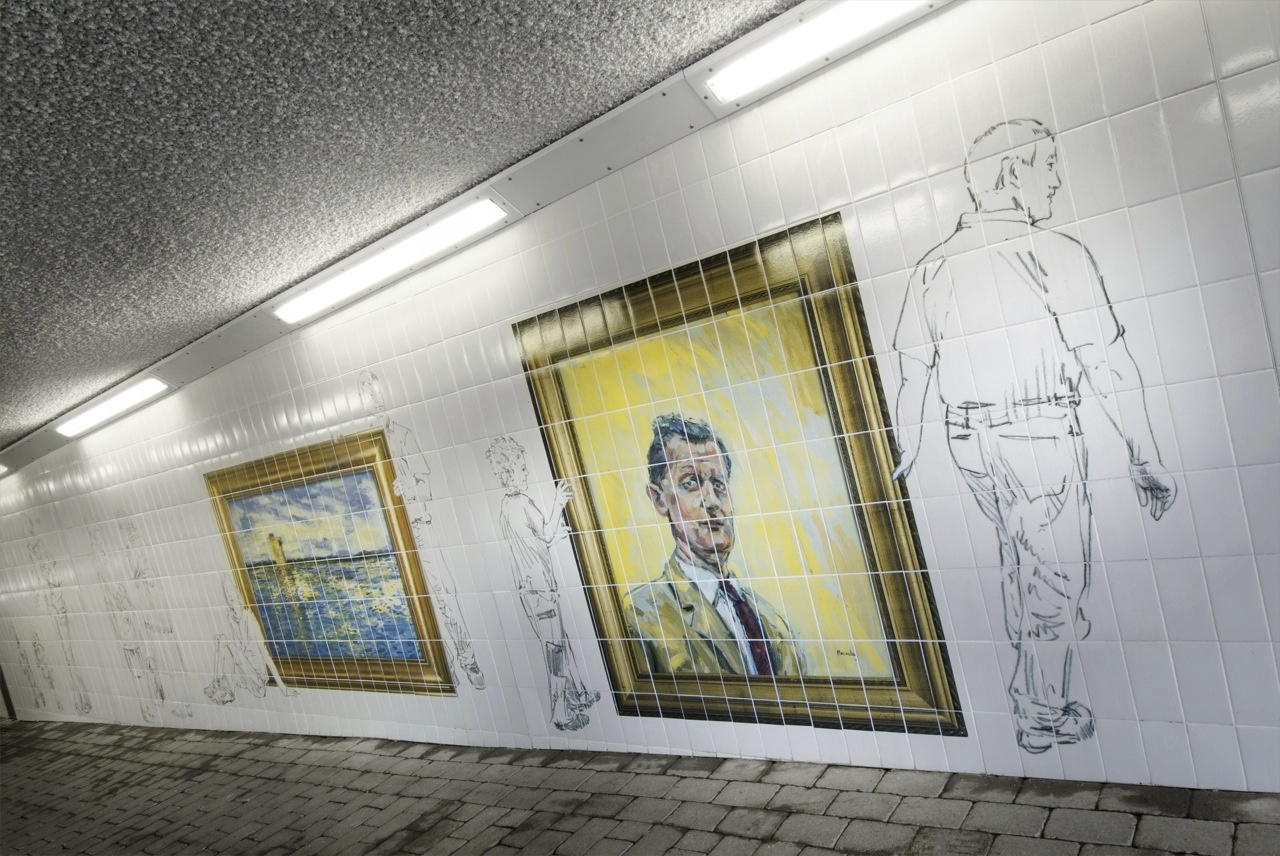 Robert Francis Dudgeon Ancell (16 June 1911 – 5 July 1987) was a Scottish football player and manager.